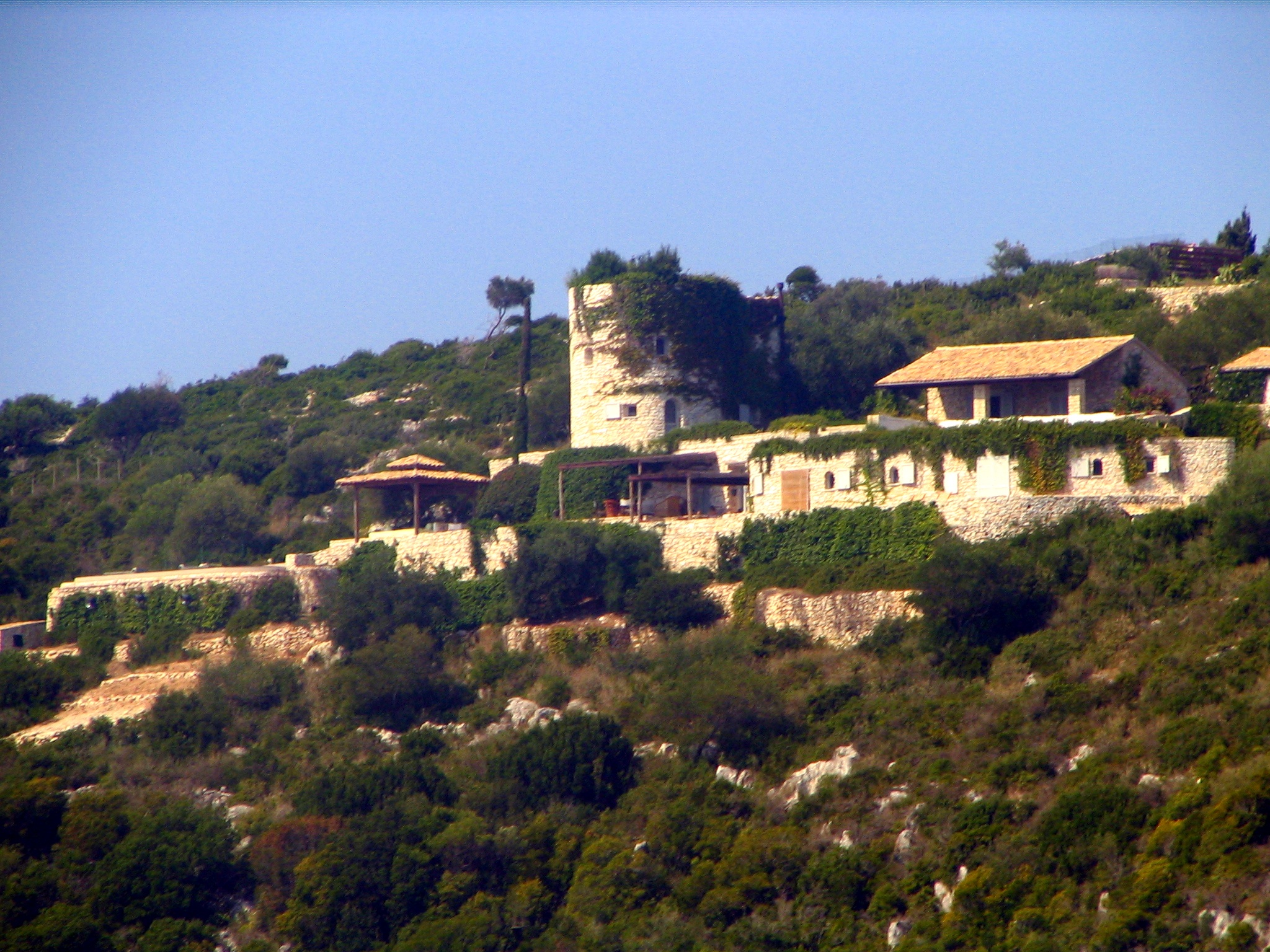 A villa on the coast of the Island of Paxos, Greece.